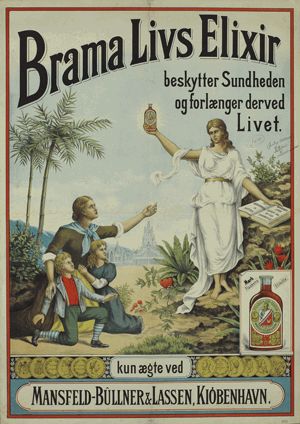 Danish poster, advertising Brama Livs Elixir by Mansfeld-Bûllner & Lassen.